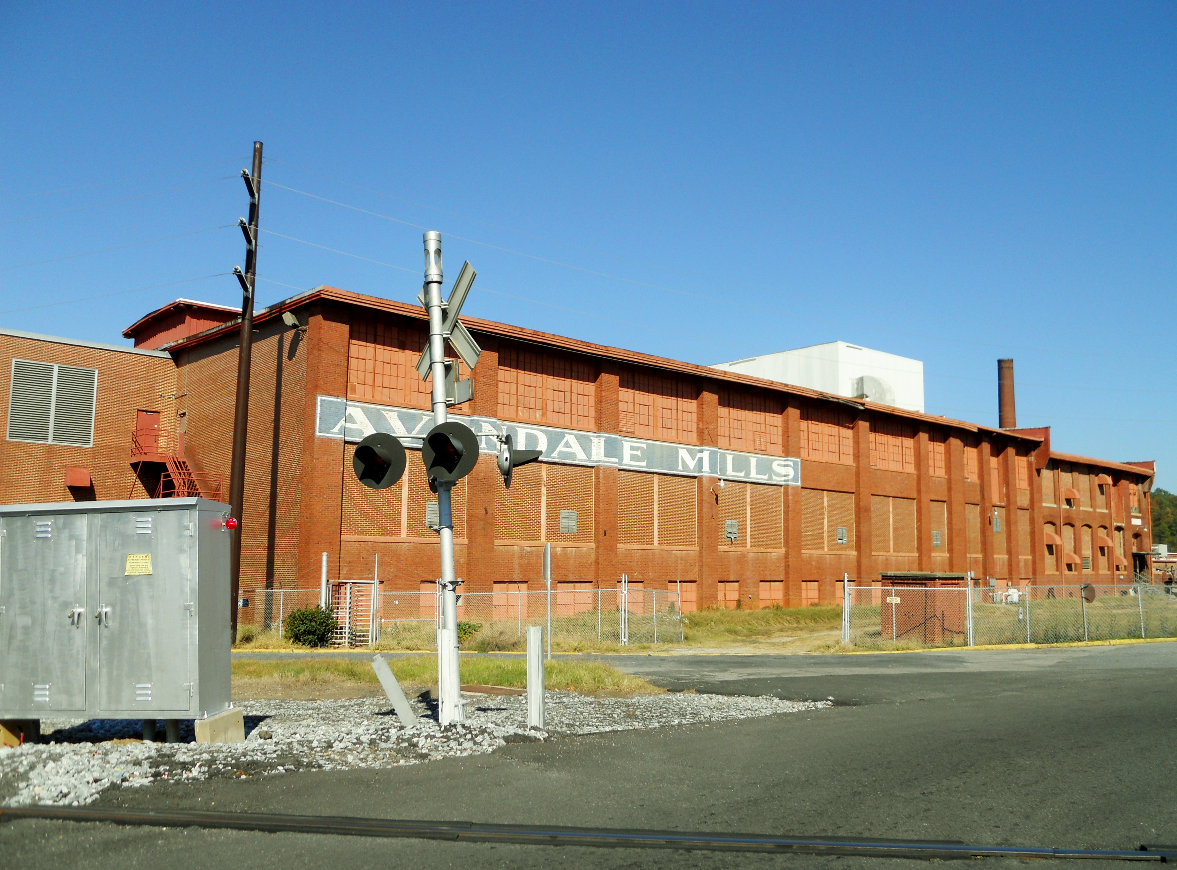 This is a photo of the Avondale Mills in Mignon, Alabama.